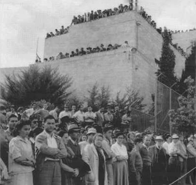 Crowds watching in Jerusalem the Mass Funeral of 323 Israeli Soldiers and Civilians killed in the 1948 War of Independence, including many residents of Gush Etzion. November 17th 1949